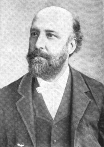 Henry Bacon, US Congressman from New York